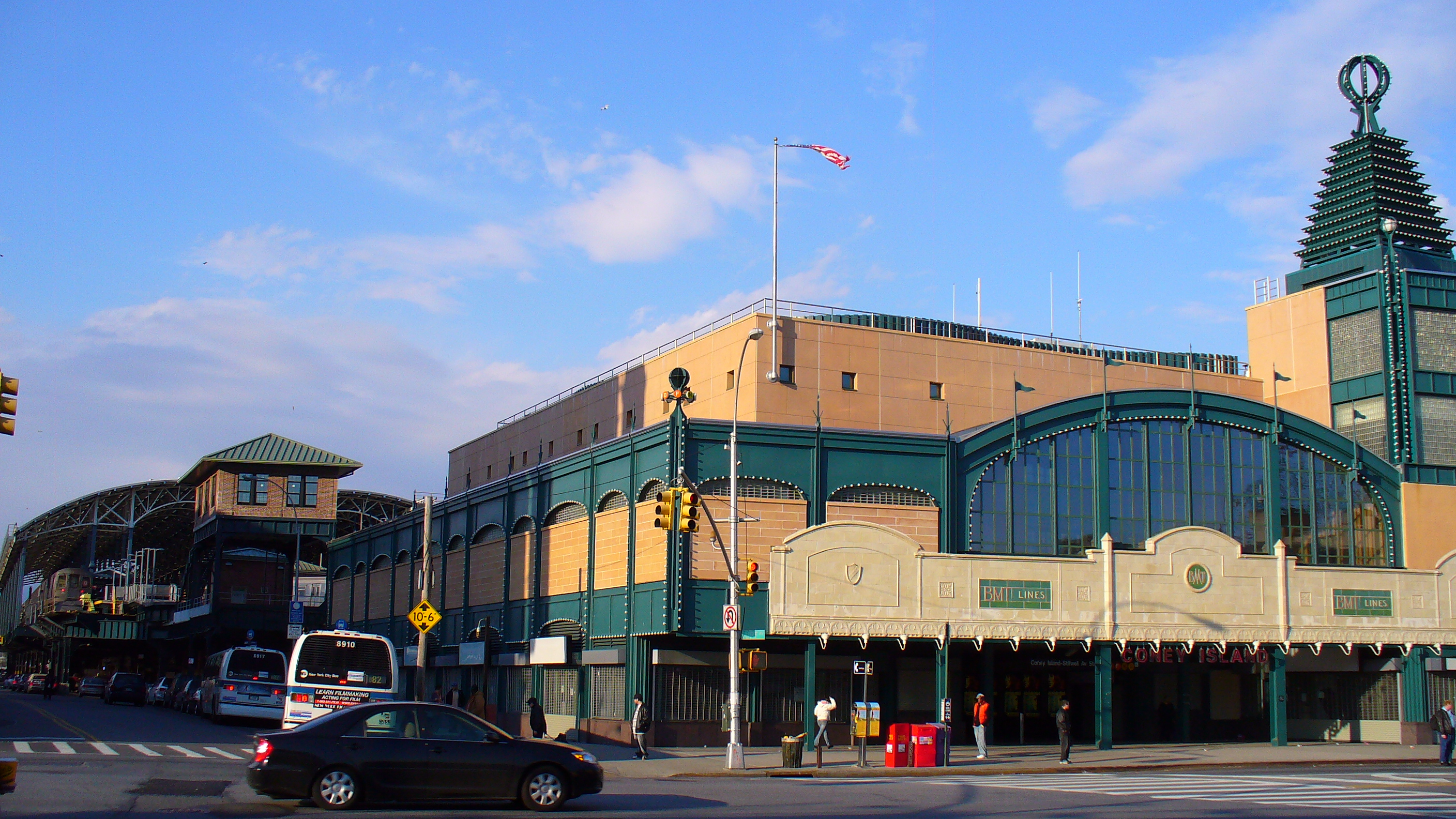 Coney Island Stillwell Avenue NYC Subway Station by David Shankbone